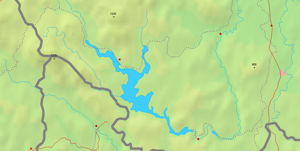 Map of the reservoir Lipno